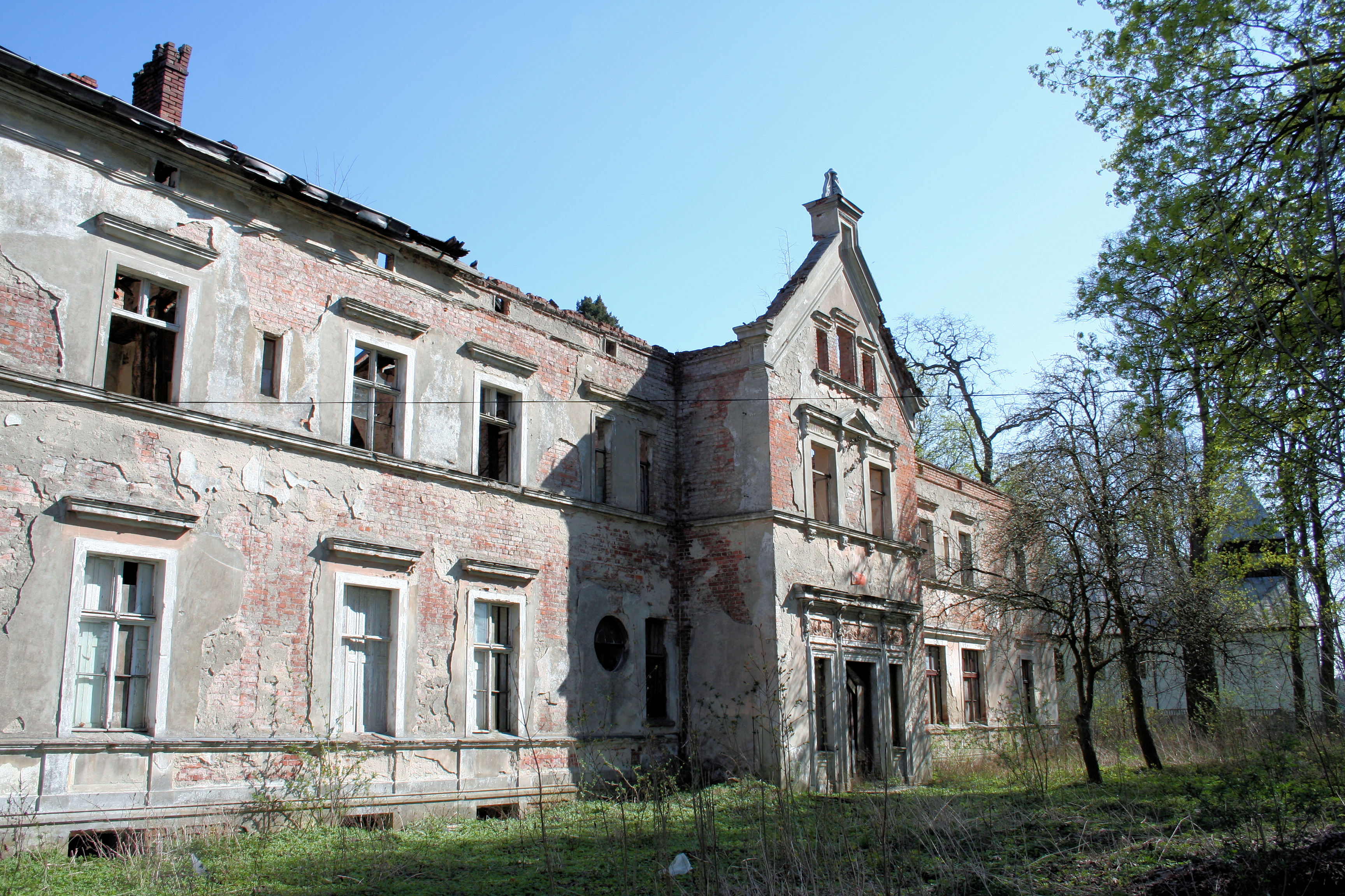 Palace in Grzymiradz